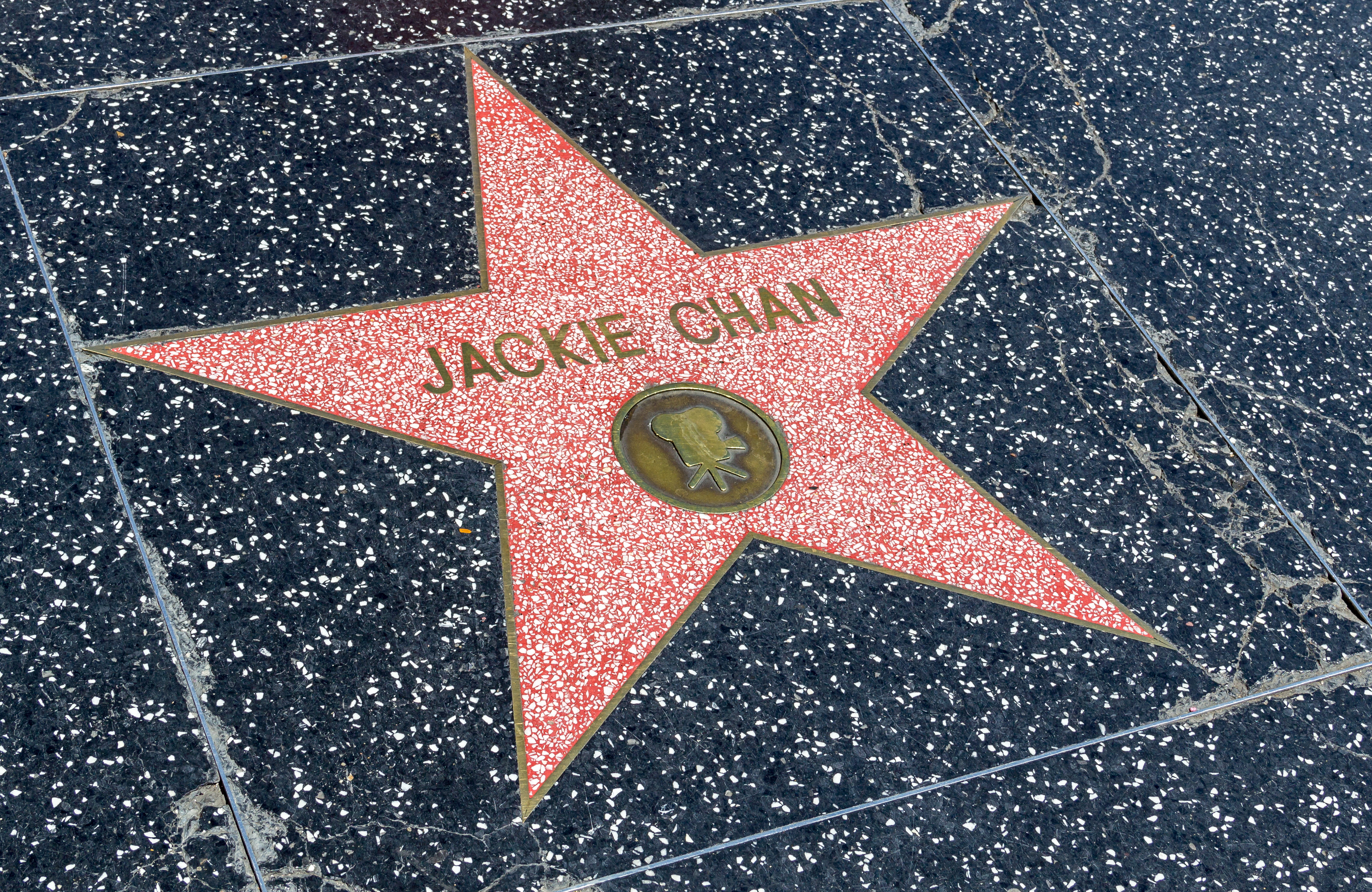 Star “Jackie Chan” at the Hollywood Boulevard in Los Angeles, California, USA